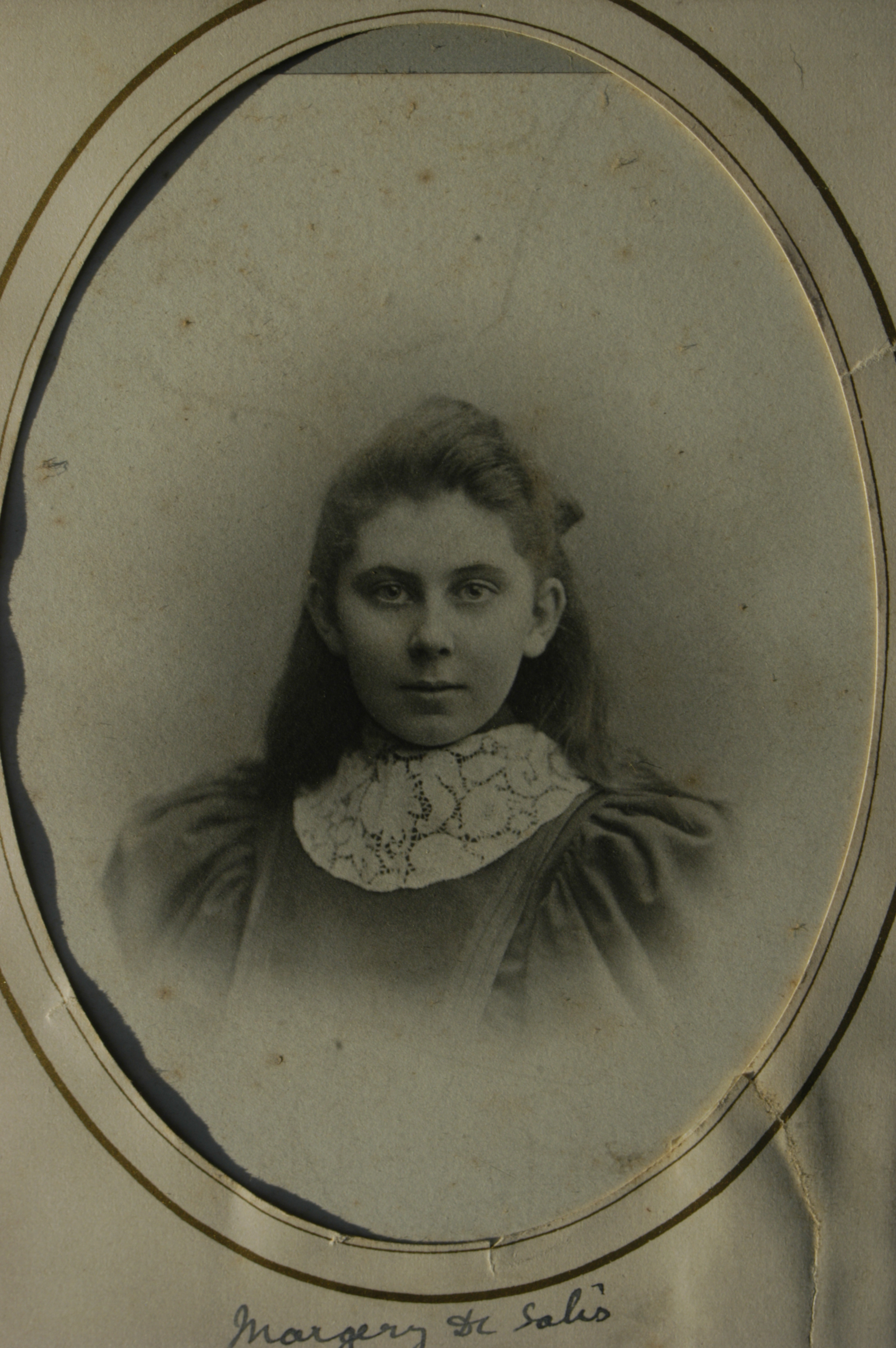 Photo (by me, R. de Salis, Rodolph (talk) 00:13, 13 August 2015 (UTC)) of Margery Fane De Salis in around 1890.